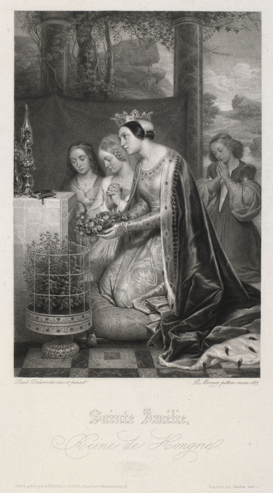 Saint Amelia, Queen of Hungary, engraved by Paolo Mercuri.